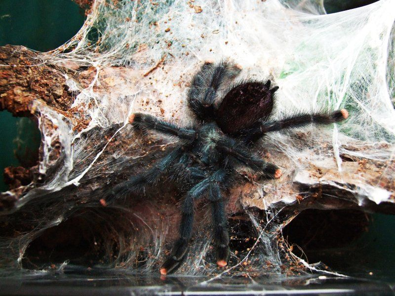 ?Avicularia avicularia, syn. A. velutina